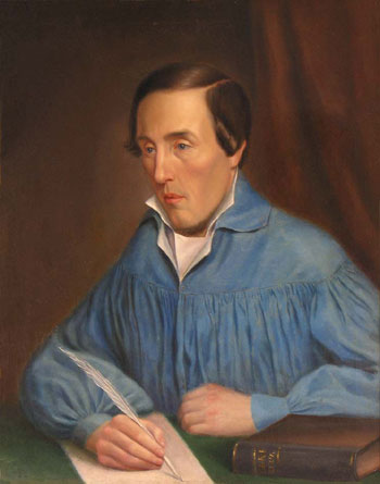 Portrait of Johan Vilhelm Snellman